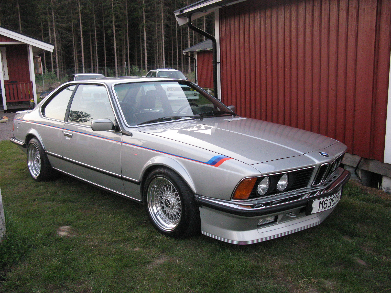 BMW M635 CSi